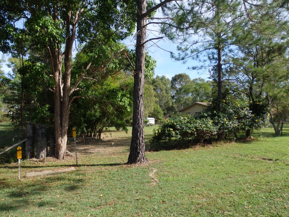 650053 former cemetery reserve site from Bluebell Rd (EHP, 2017)